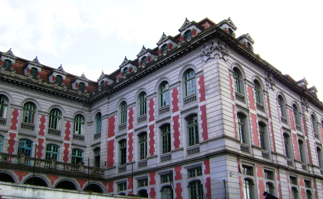 This is a picture from Instituto Técnico Central La Salle at Bogotá.